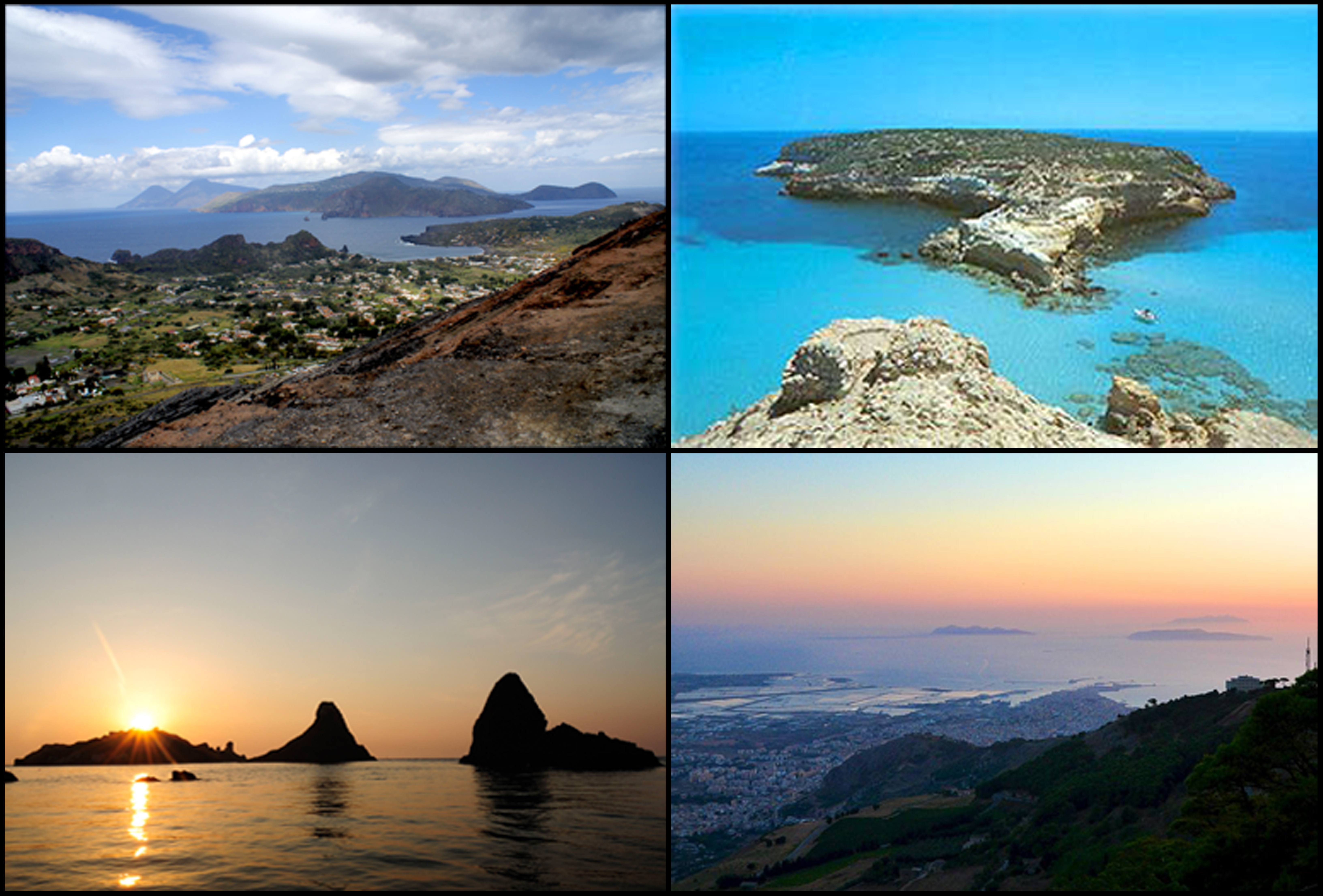 A collage of 4 photos from Sicily Islands.